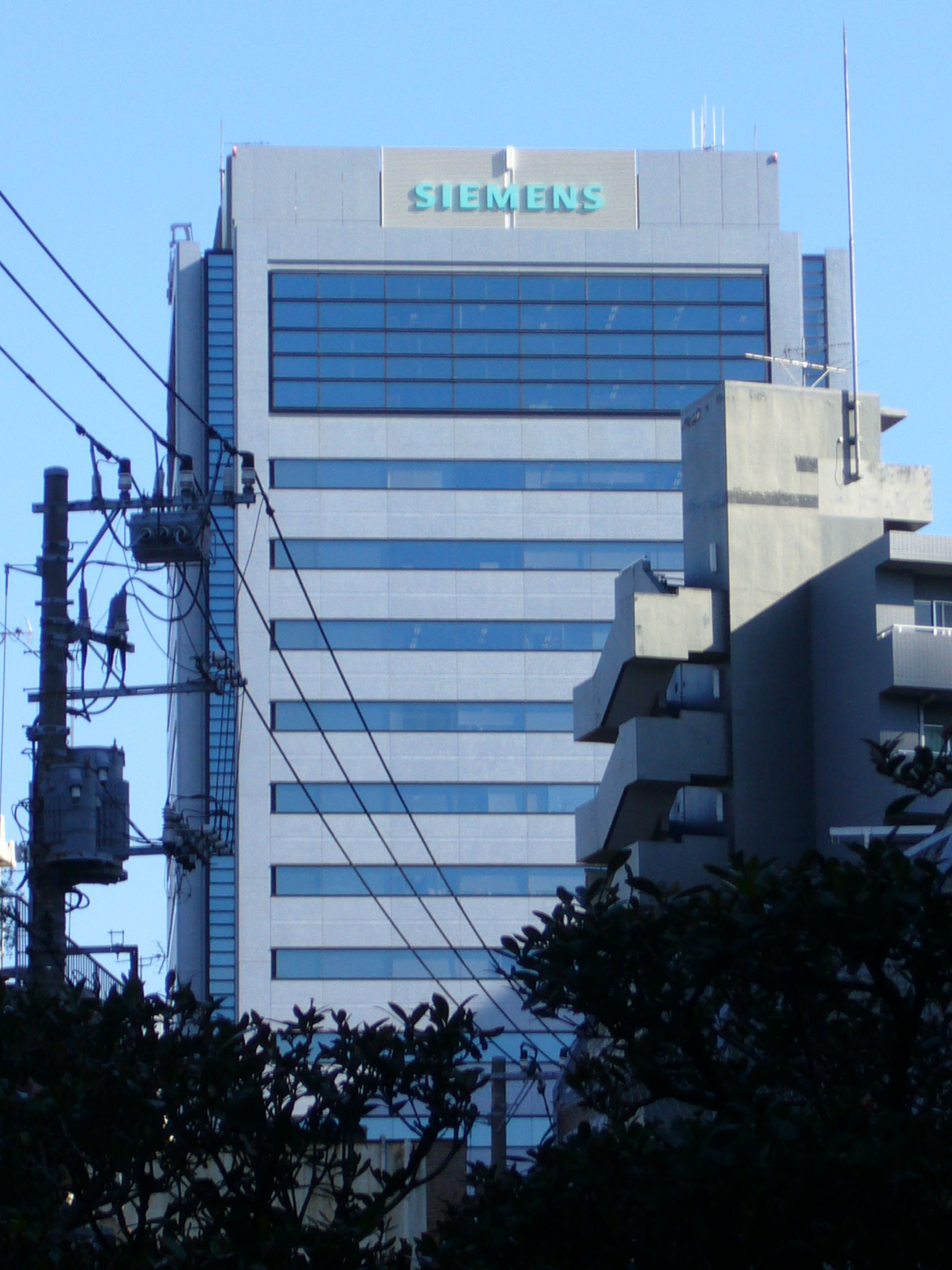 Takanawa Park Tower (Office building in Tokyo, Japan)